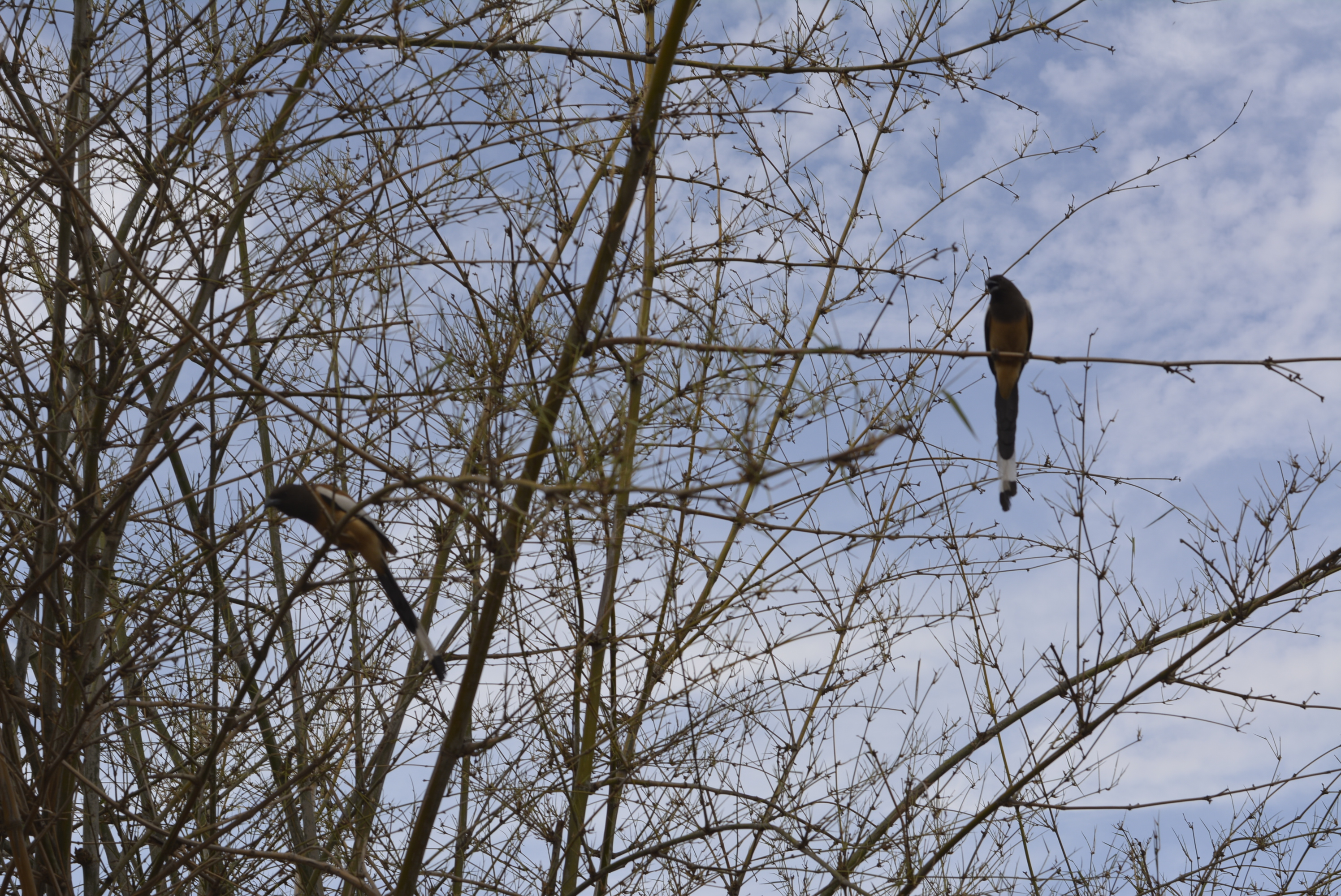 view of bird at sariska national park,alwar rajasthan